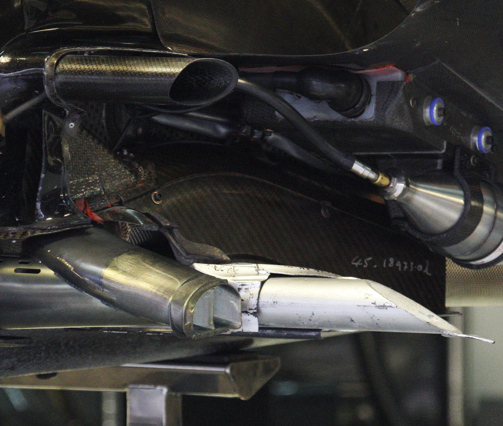 Formula One 2011 Rd.2 Malaysian GP: Renault R31's forward exhaust.